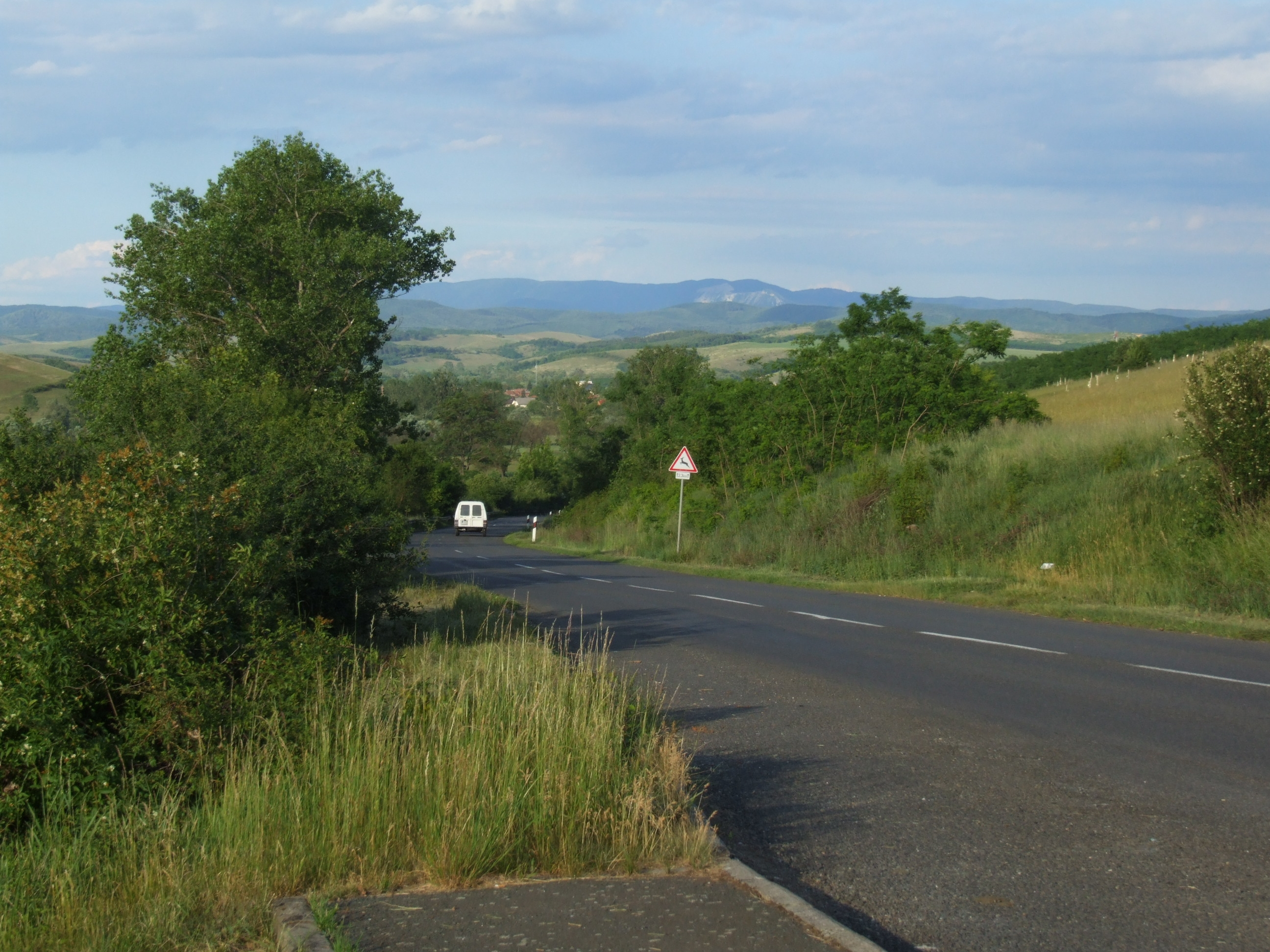 Road 23 in Hungary (near Ivád)